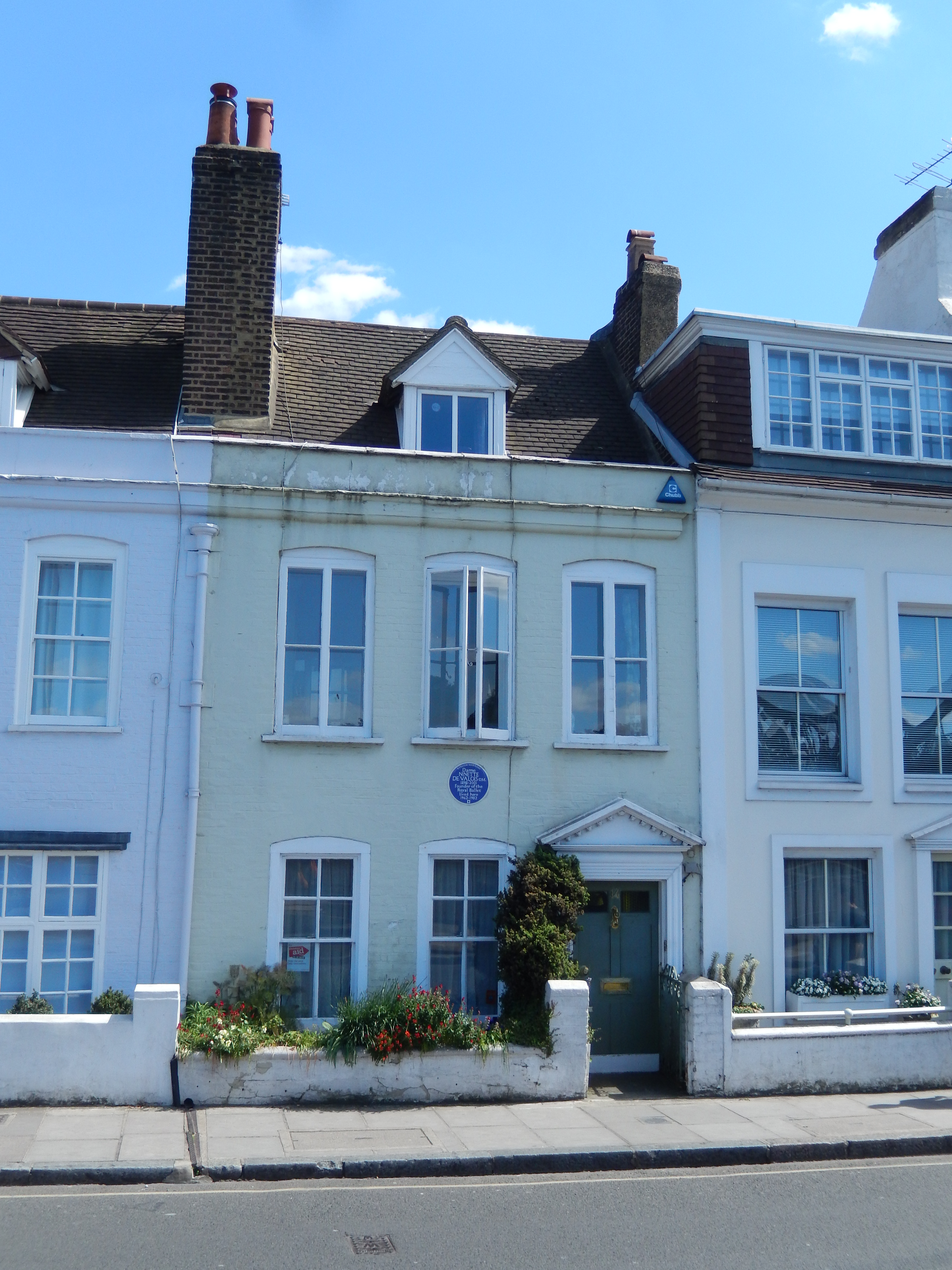 Ninette de Valois' house in Barnes, facing the river, with English Heritage blue plaque stating "Dame NINETTE DE VALOIS O.M. 1898-2001 Founder of the Royal Ballet lived here 1962-1982". Plaque erected in 2006 by English Heritage at 14 The Terrace, Barnes, London SW13 0NP, London Borough of Richmond upon Thames